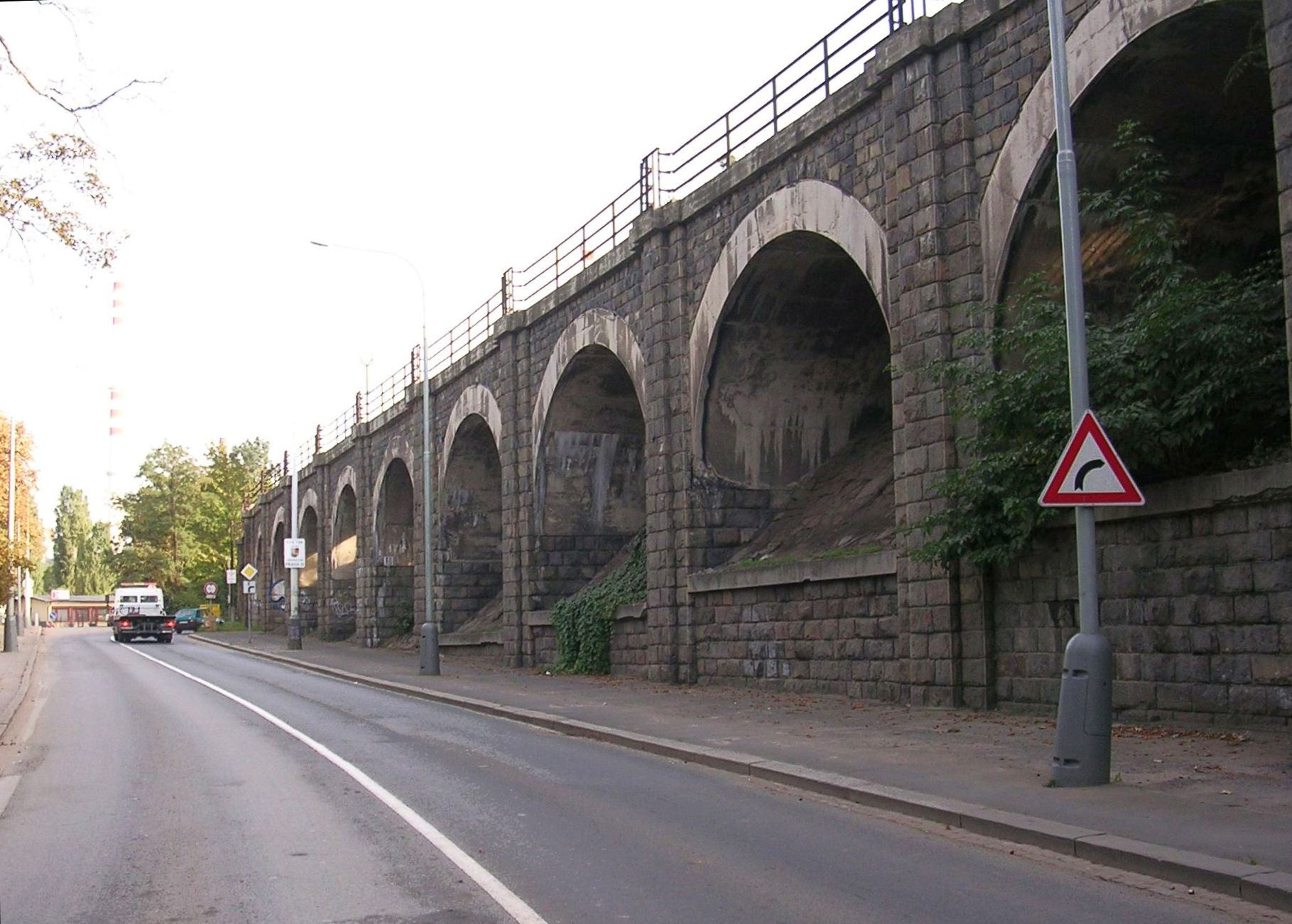 Prague-Malešice, Czech Republic. Railway bridge at track Malešice-Žižkov. U tvrze a Pod Táborem streets.